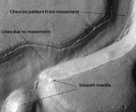 Niger Vallis, as seen by hirise. Location is 35.6 degrees south latitude and 268 degrees west longitude. Image was taken by the Mars Reconnaissance Orbiter's HiRISE. The HiRISE camera was built by Ball Aerospace and Technology Corporation and is operated by the University of Arizona. Image courtesy NASA/JPL/University of Arizona.